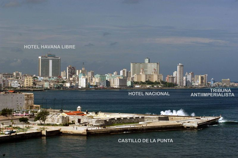 Havana, Cuba, september 2005. Eigen foto, detail in Metadata.